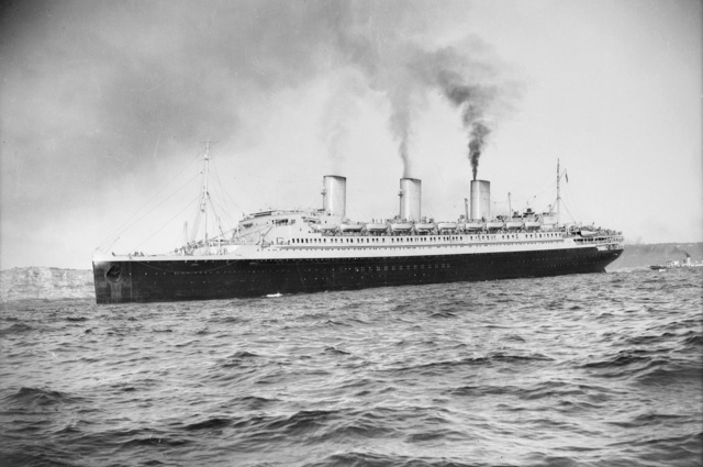 The HMT Île-De-France during World War 2